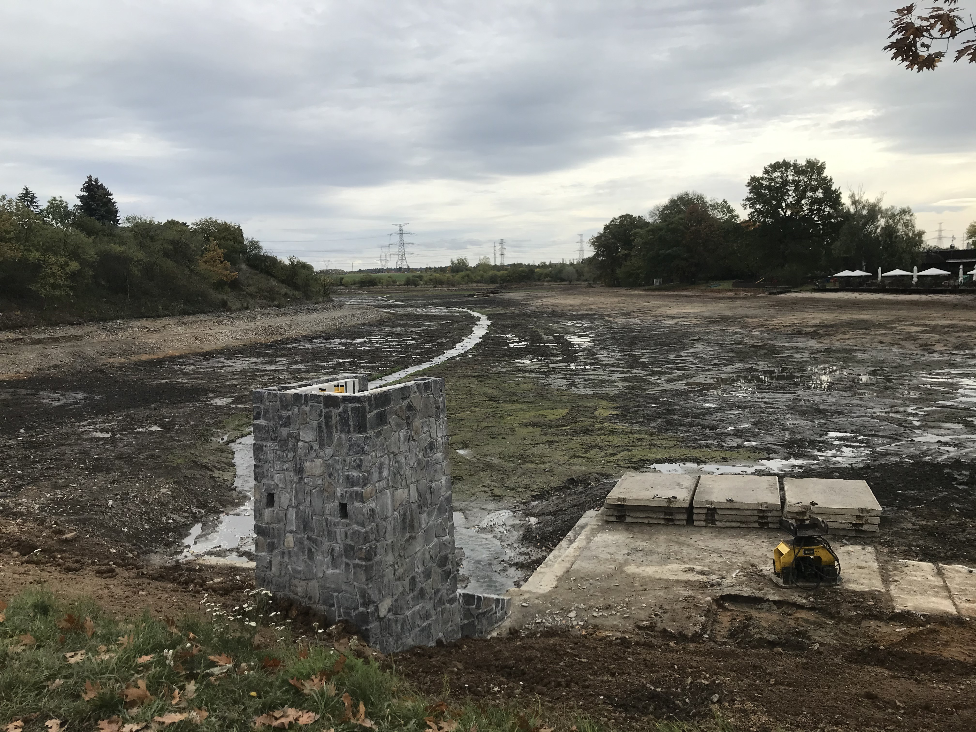 Šeberák pond in Prague (Czech Republic) during reconstruction viewed from west